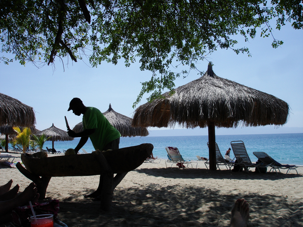 The beach resort of Club Indigo near Saint-Marc, Haiti